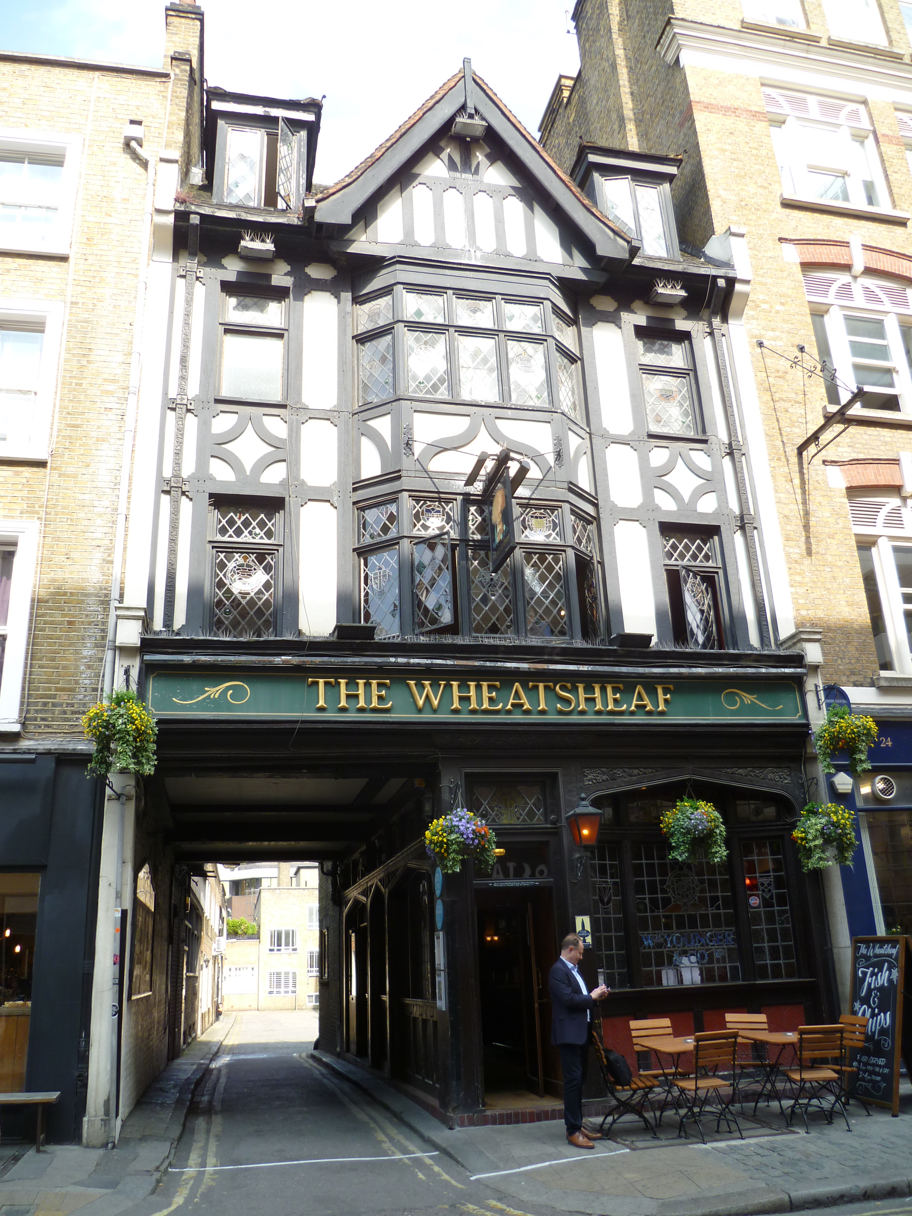 London